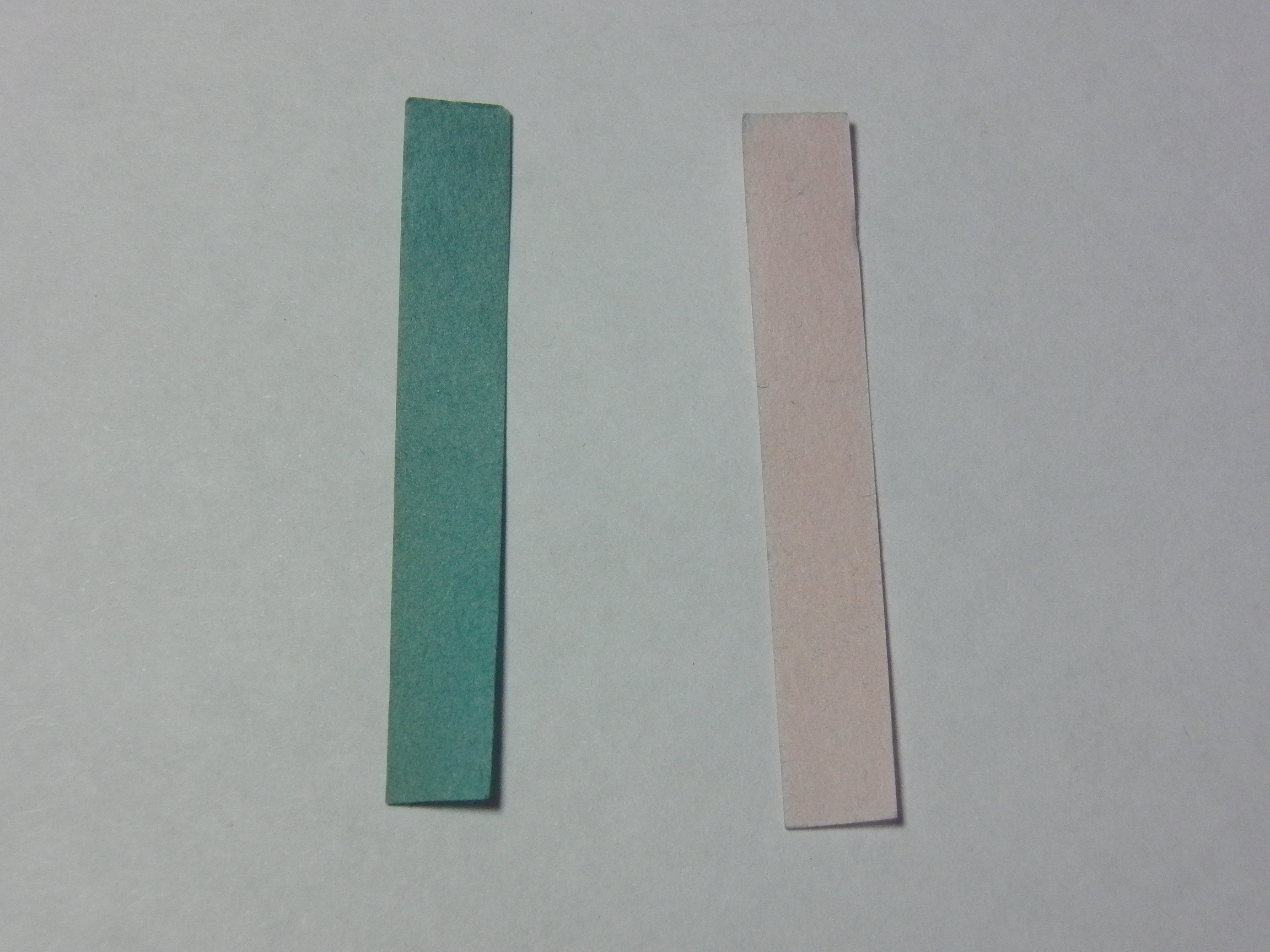 CoCl2 test paper